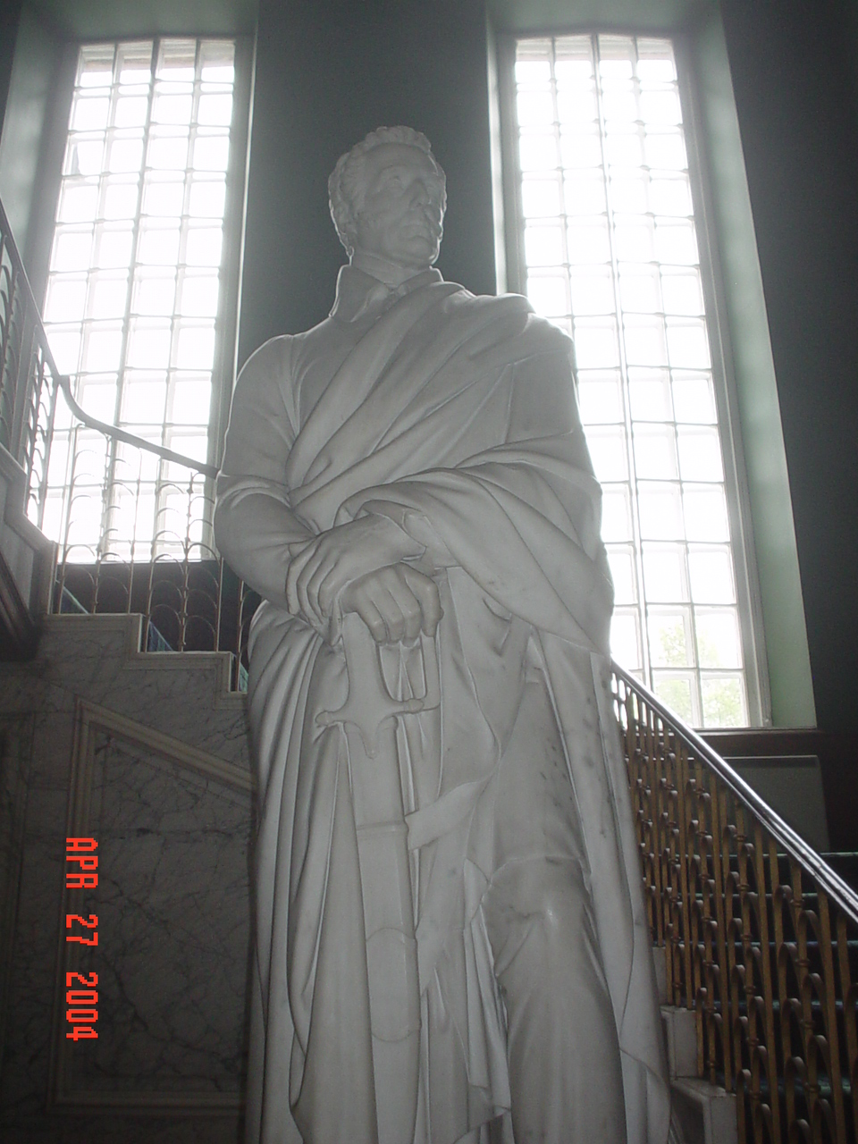 The statue of the Duke of Wellington by the Great Staircase in Dalkeith Palace.